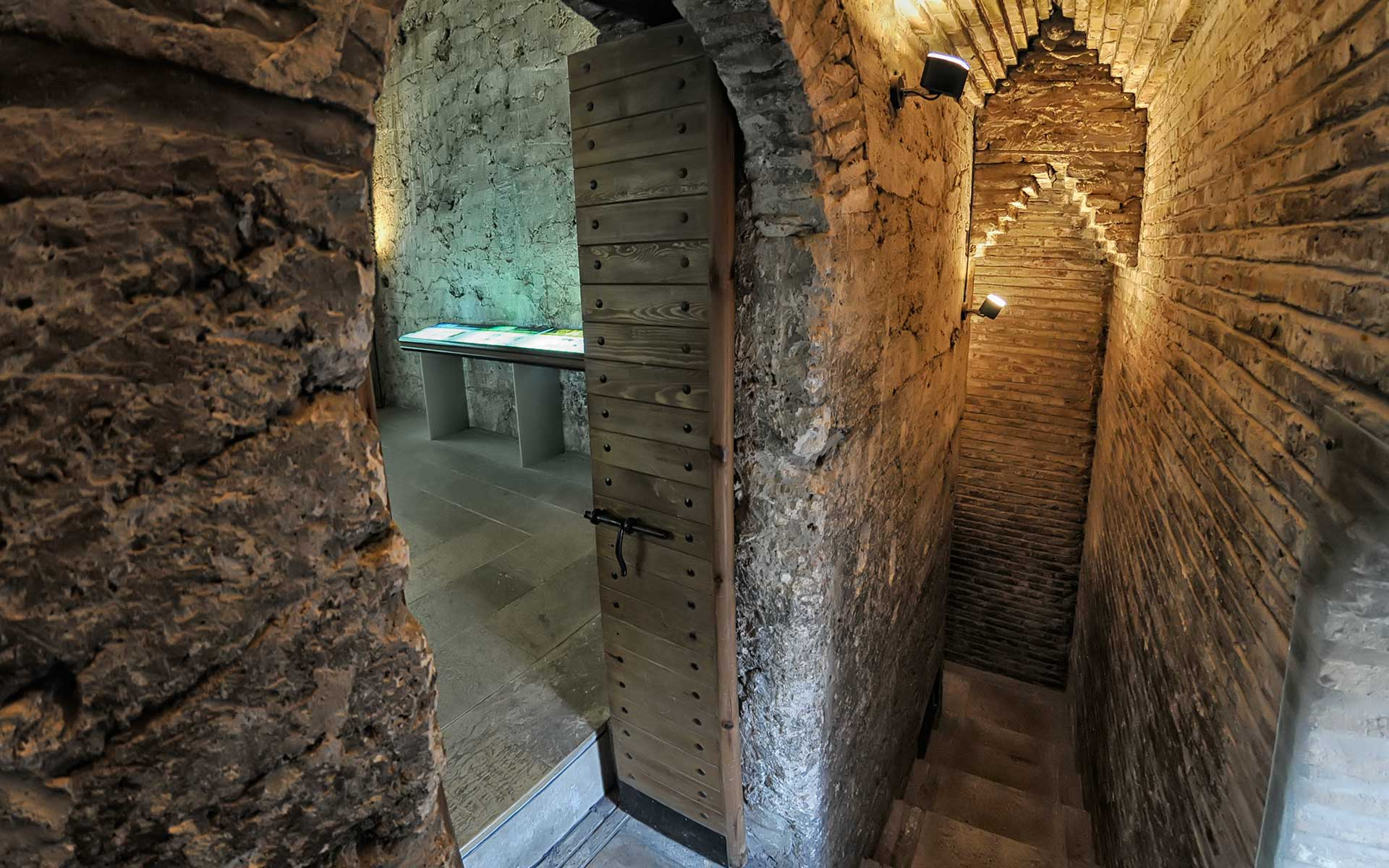 mudejar tower of El Salvador. XVI th C. Teruel. Interior structure "alminar almohade" UNESCO World Heritage